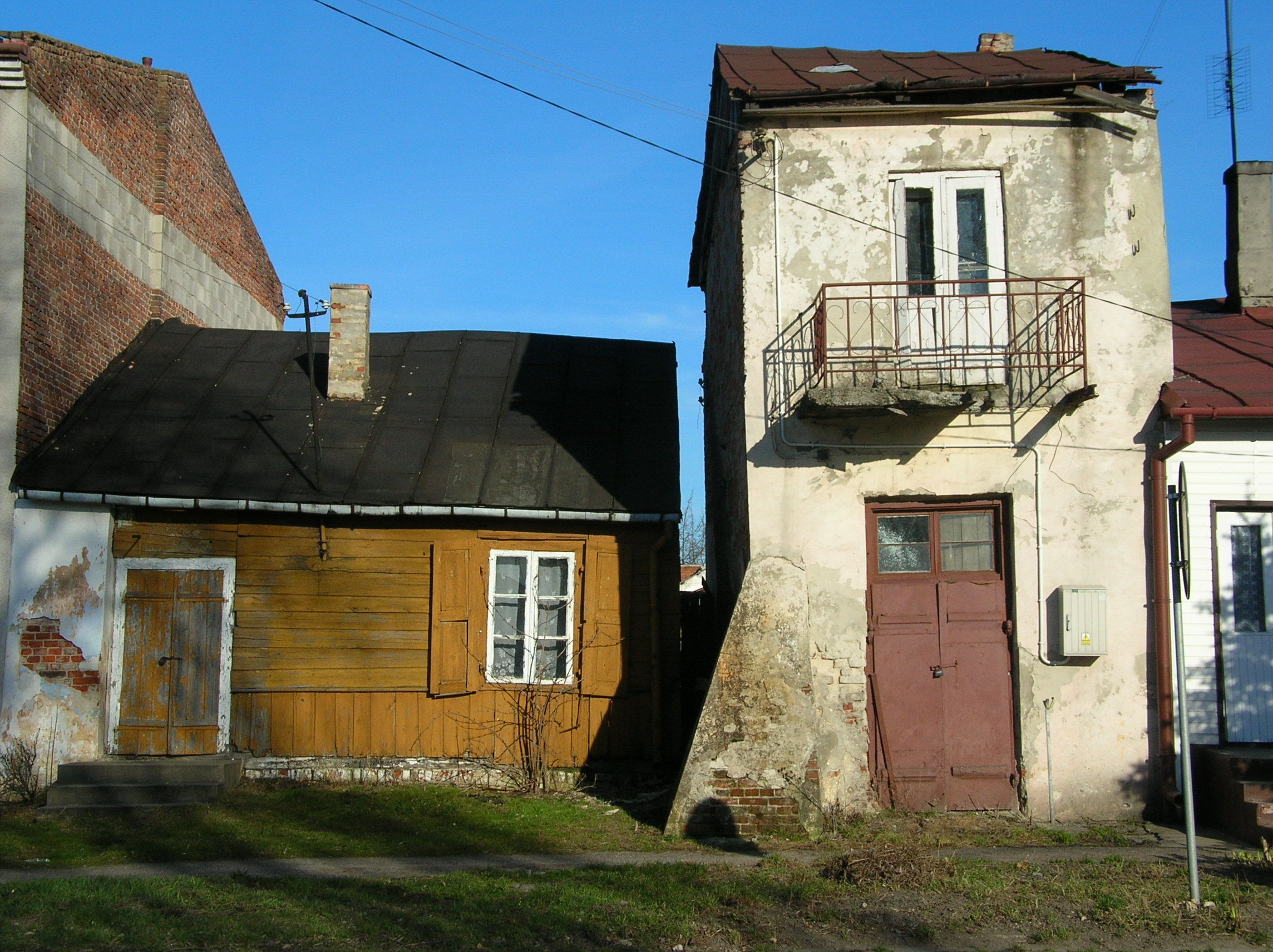 Houses in Końskowola